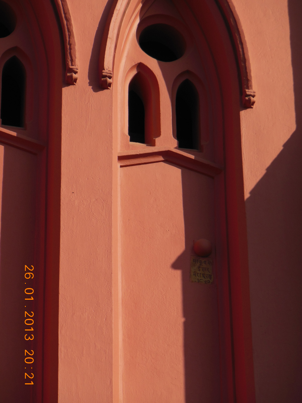 The historical canonball, G.E.L.Church, Ranchi